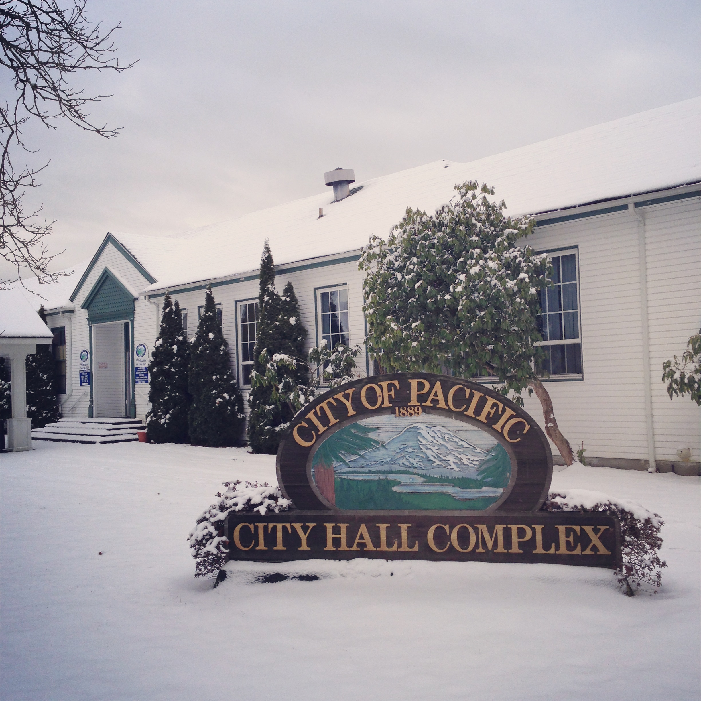 Pacific City Hall & sign